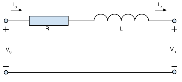 Equivalent circuit of a short length of power line.